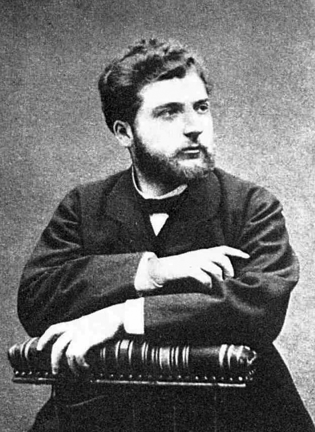 Studio photograph of the French composer Georges Bizet (1838 - 1875)